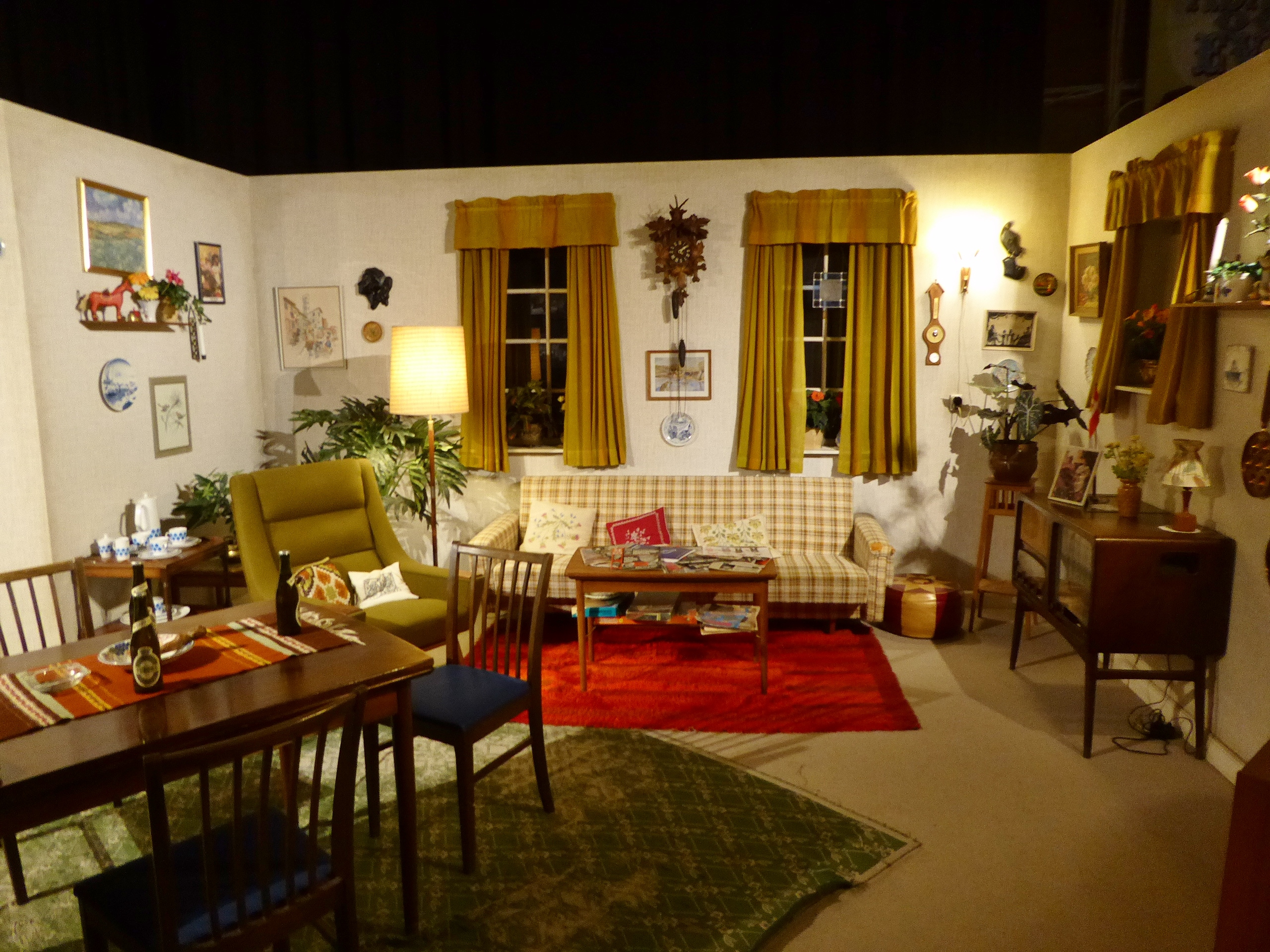 Recreation of the living room of Kjeld and Yvonne from the Danish Olsen-banden film series in a special exhibition at Nordisk Film in Copenhagen. The actually sets from the 1970s was scrapped when the making of each movie was finished. The living room had to be recreated at least eight times whenever a new movie went into production.